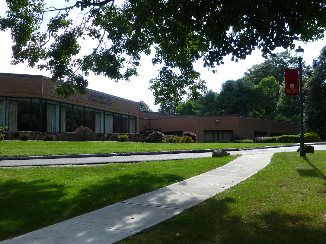 Rear of Dolan School of Business at Fairfield University in Fairfield, Connecticut, USA.